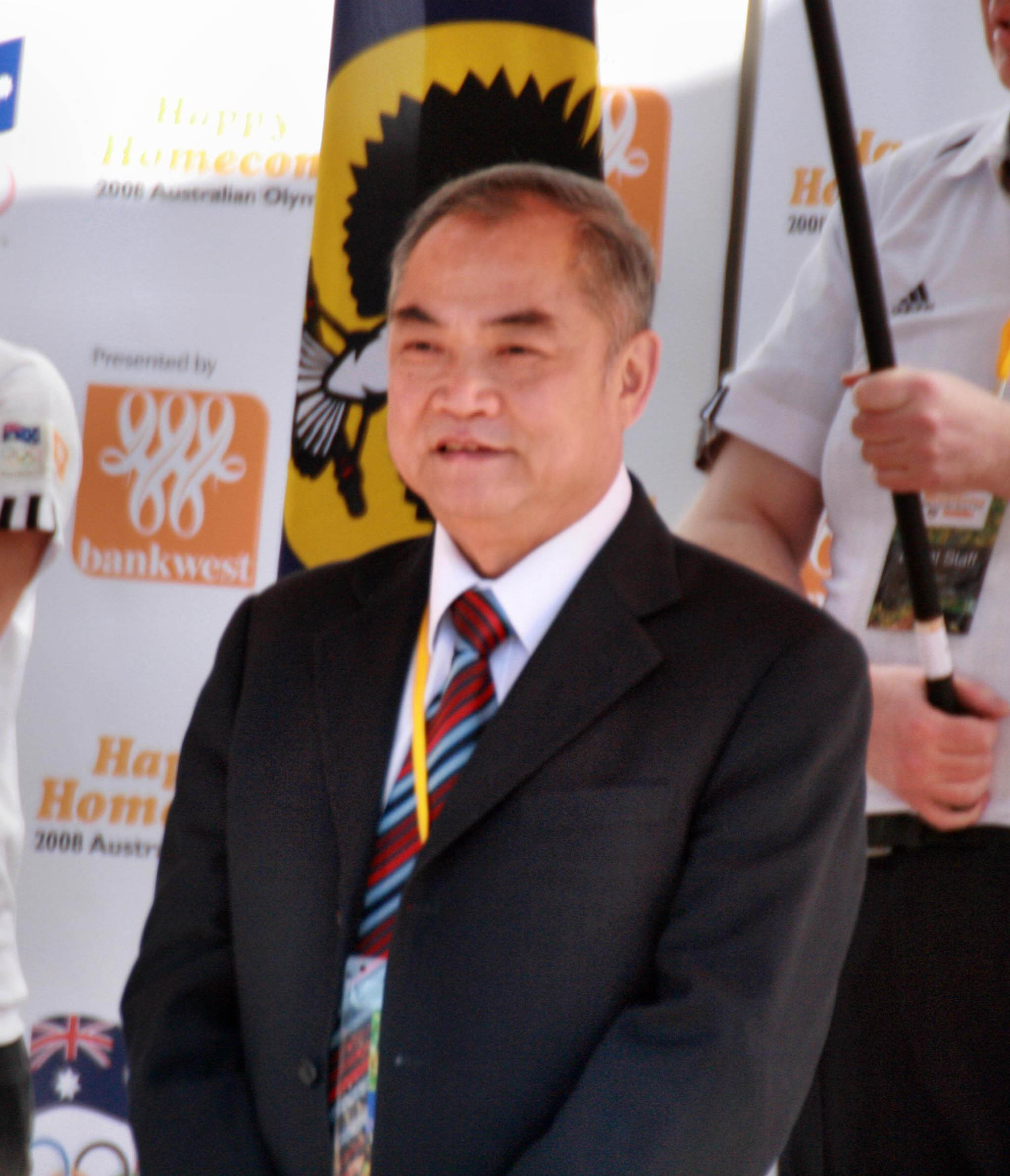 Photograph of John So, Lord Mayor of Melbourne.